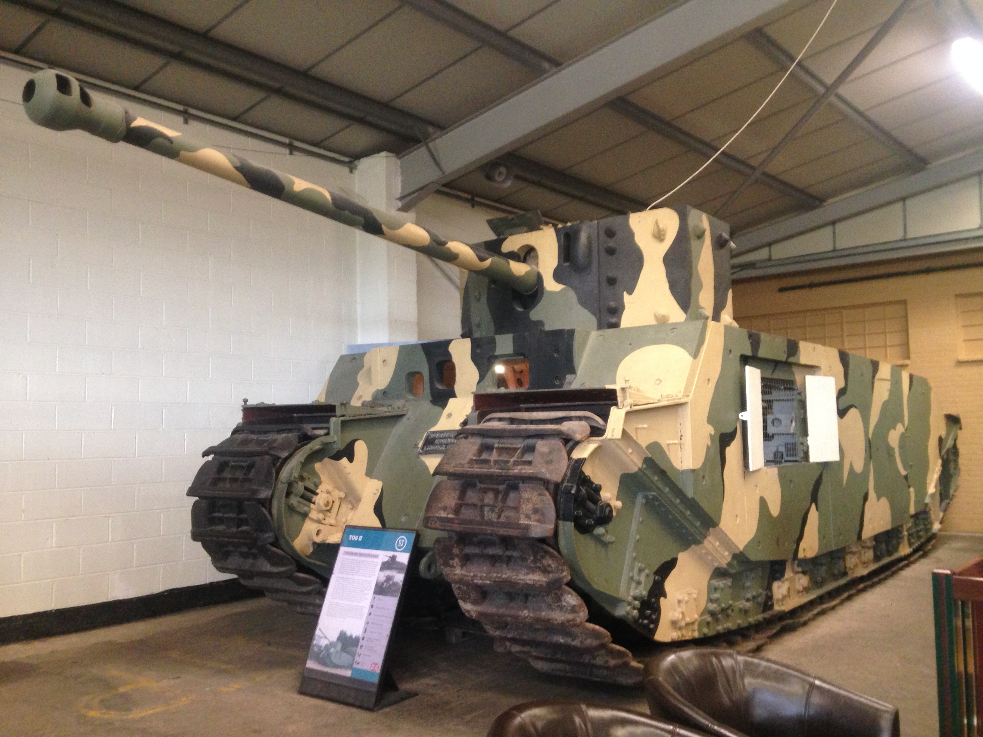 Taken in Bovington Tank Museum